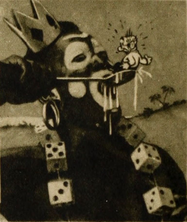 Colonel Heeza Liar's Treasure Island, still 2